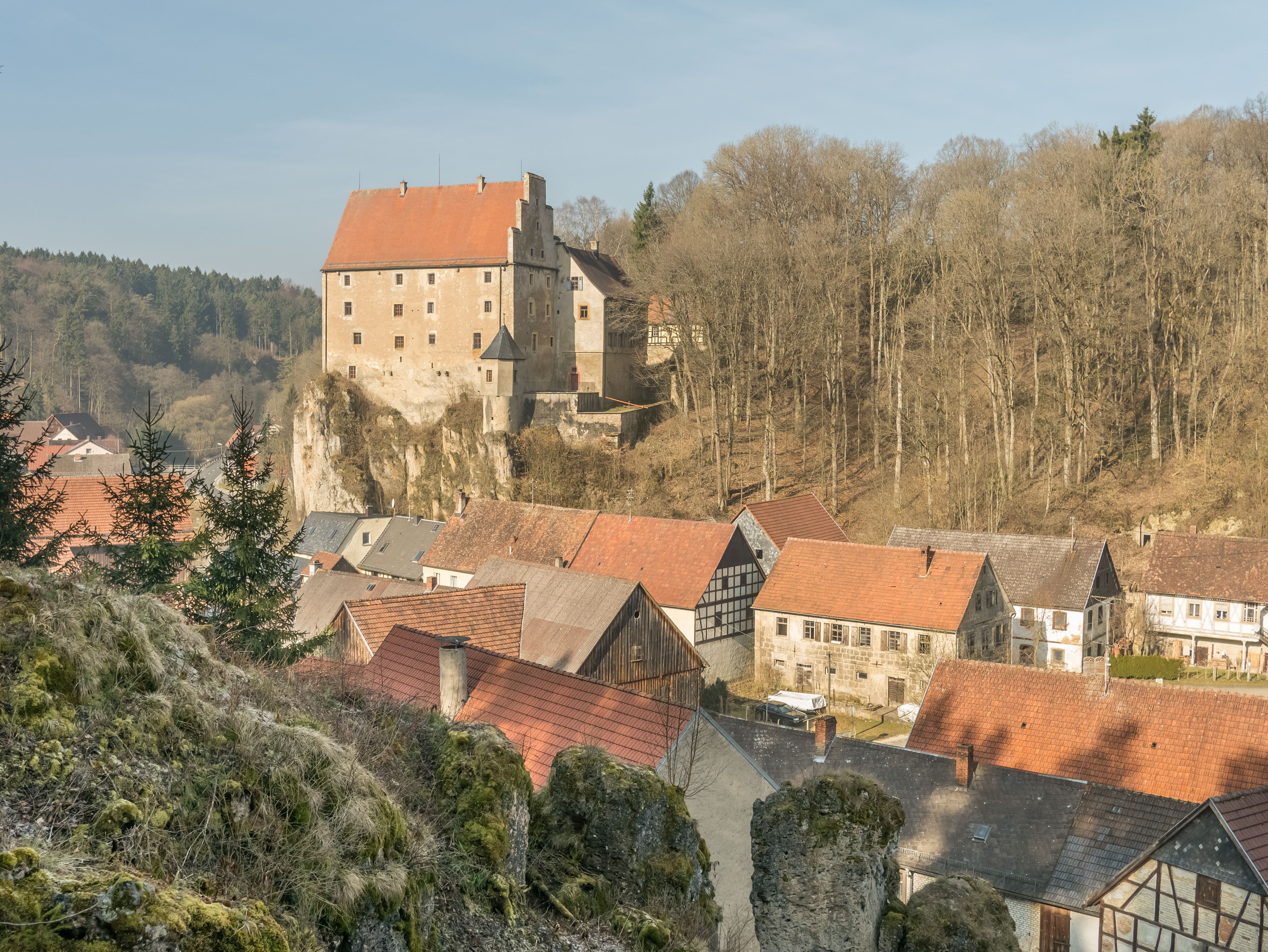 Castle Wiesentfels seen from the southeast.